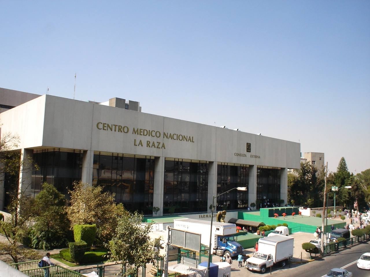 HOSPITAL LA RAZA DEL I. M. S. S. (built by the architect Enrique Yáñez)